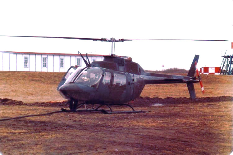 I took this photo of a 408 Tactical Helicopter Squadron CH-136 Kiowa at Camp Wainwright in 1984